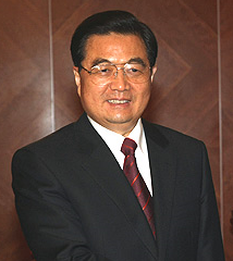 Hu Jintao (born 21 December 1942), President of the People's Republic of China (15 March 2003–present) and General Secretary of the Communist Party of China (15 November 2002–present)